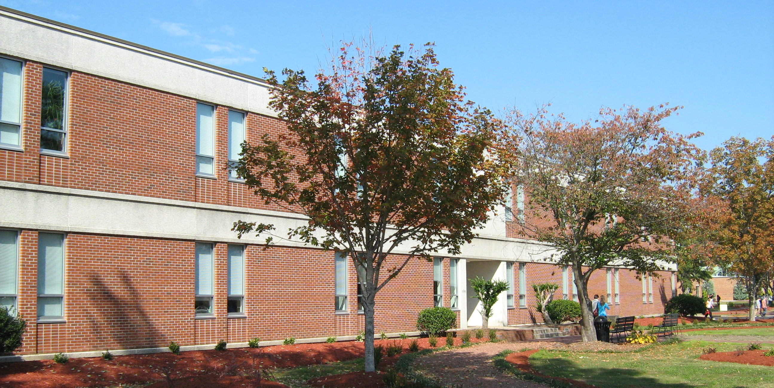 School of Business building main entrance - University of North Carolina at Pembroke